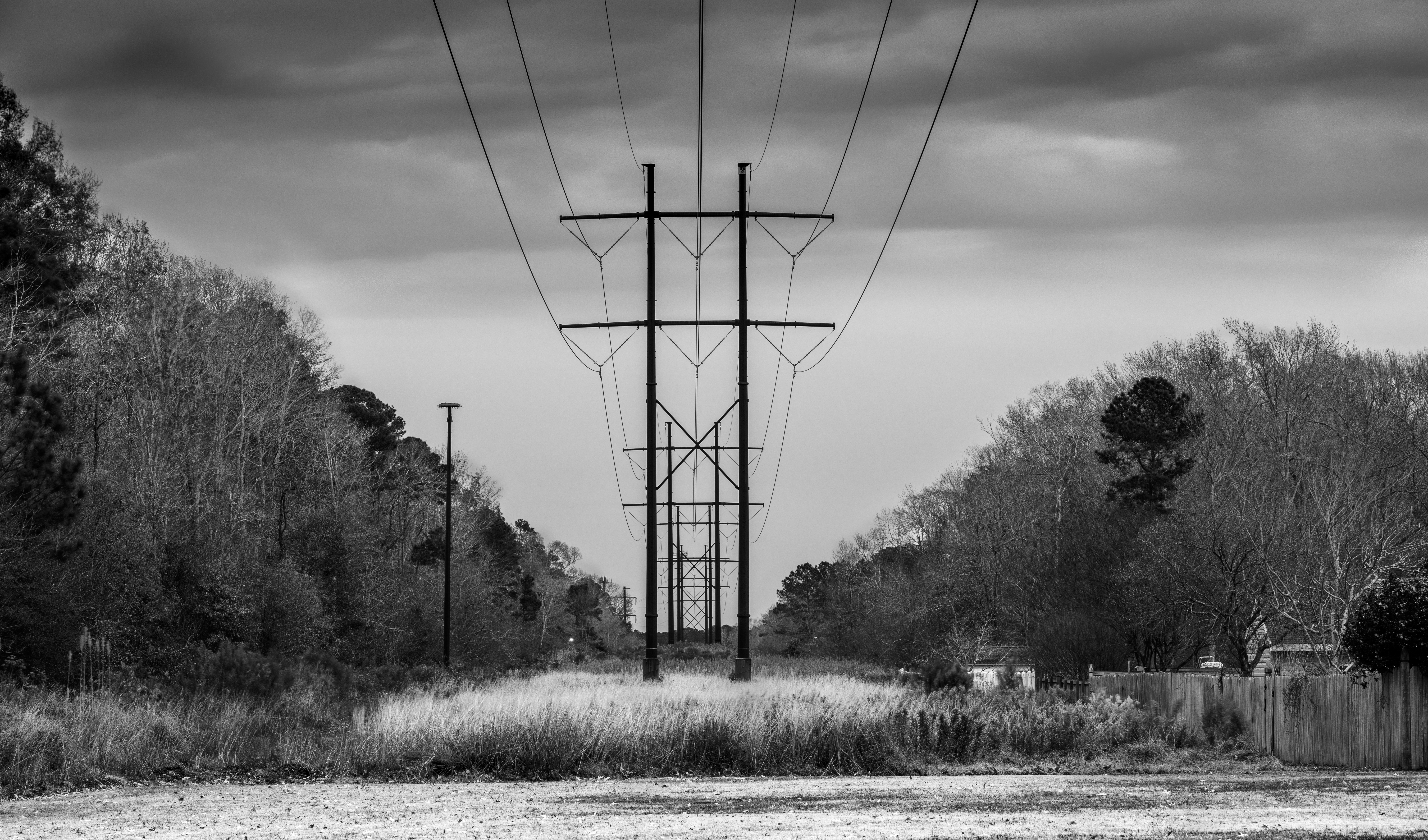 Linear perspective of 230 kV power lines during blue hour in the Castleton part of Virginia Beach, Virginia. Zoom in on the very top of the first right pole and you can read "147 90".